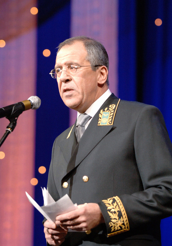 “S.Lavrov congratulates workers in the diplomatic service”. Russian Foreign Minister Sergei Lavrov congratulating the diplomatic service officials with their professional holiday.